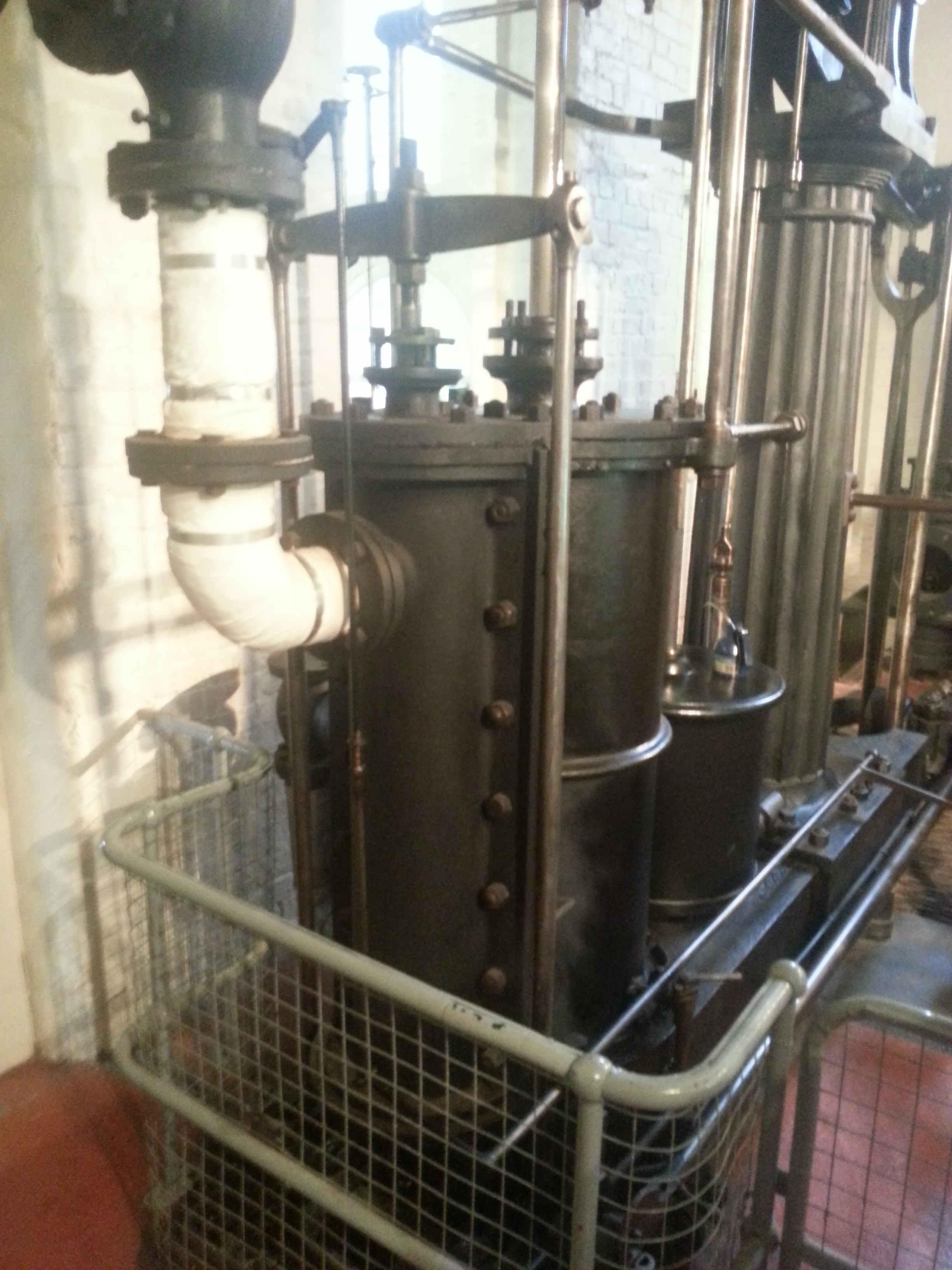 Simpson design waterworks beam engine by Harvey's of Hayle. Note the long Murdoch D-shaped slide valve